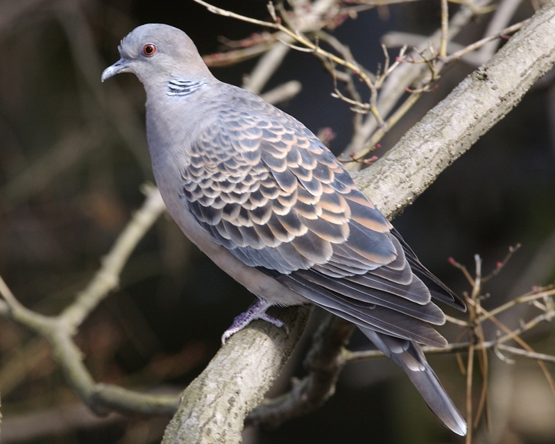 Oriental Turtle Dove (Streptopelia orientalis orientalis) Kyoto Japan 20 March 2007